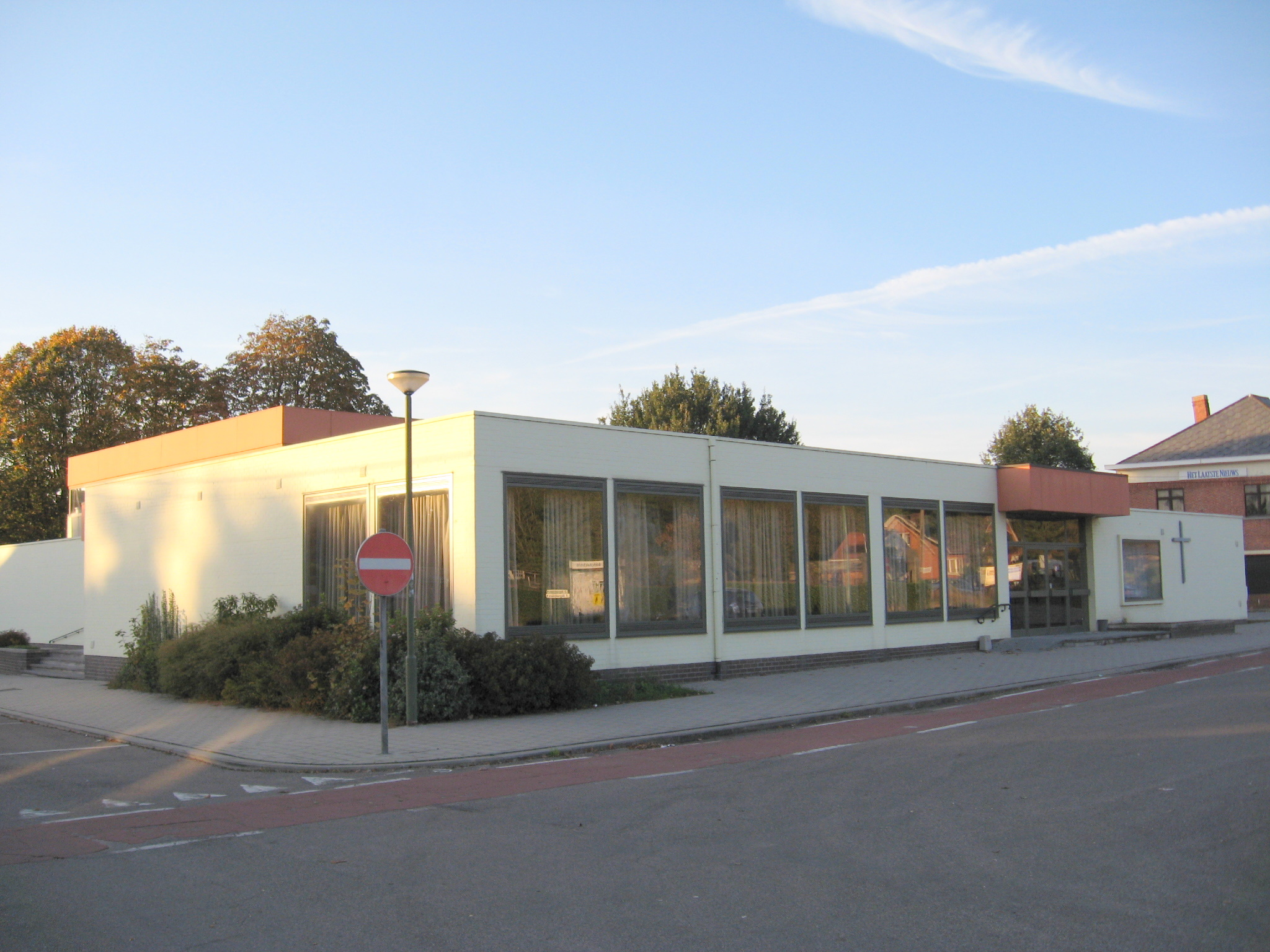 Church of the Sacred Heart of Jesus in Ourodenberg, Aarschot, Flemish Brabant, Belgium